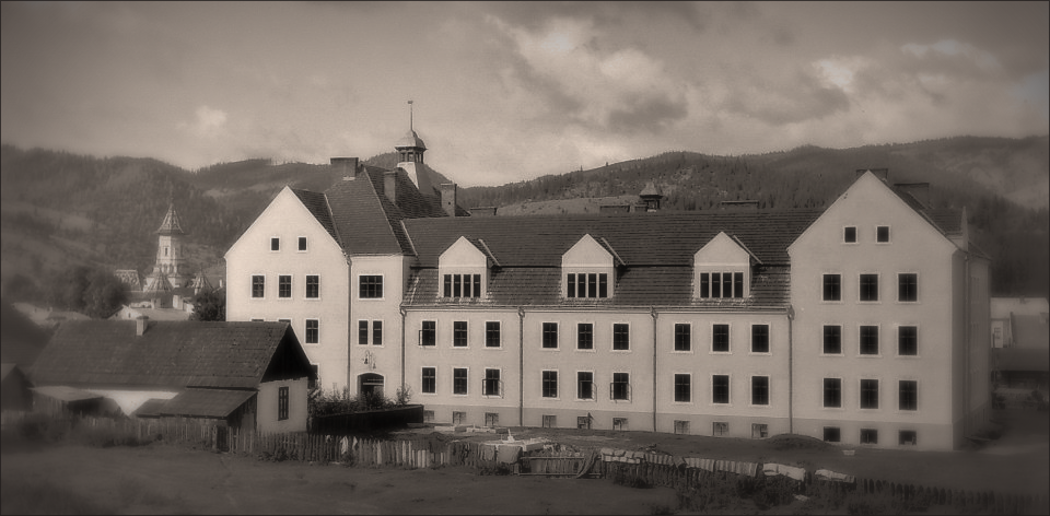 Dragoș Vodă National College in Câmpulung Moldovenesc, Suceava County, Romania (1915).